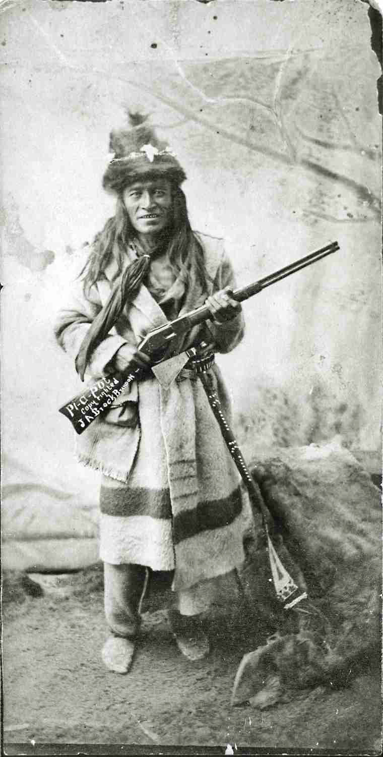 Portrait of Cree chief Piapot holding a rifle and wearing hat and scarf